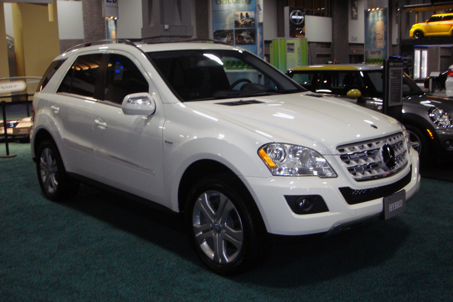 Mercedes-Benz Class M SUV ML450 Hybrid at the 2010 Washington Auto Show